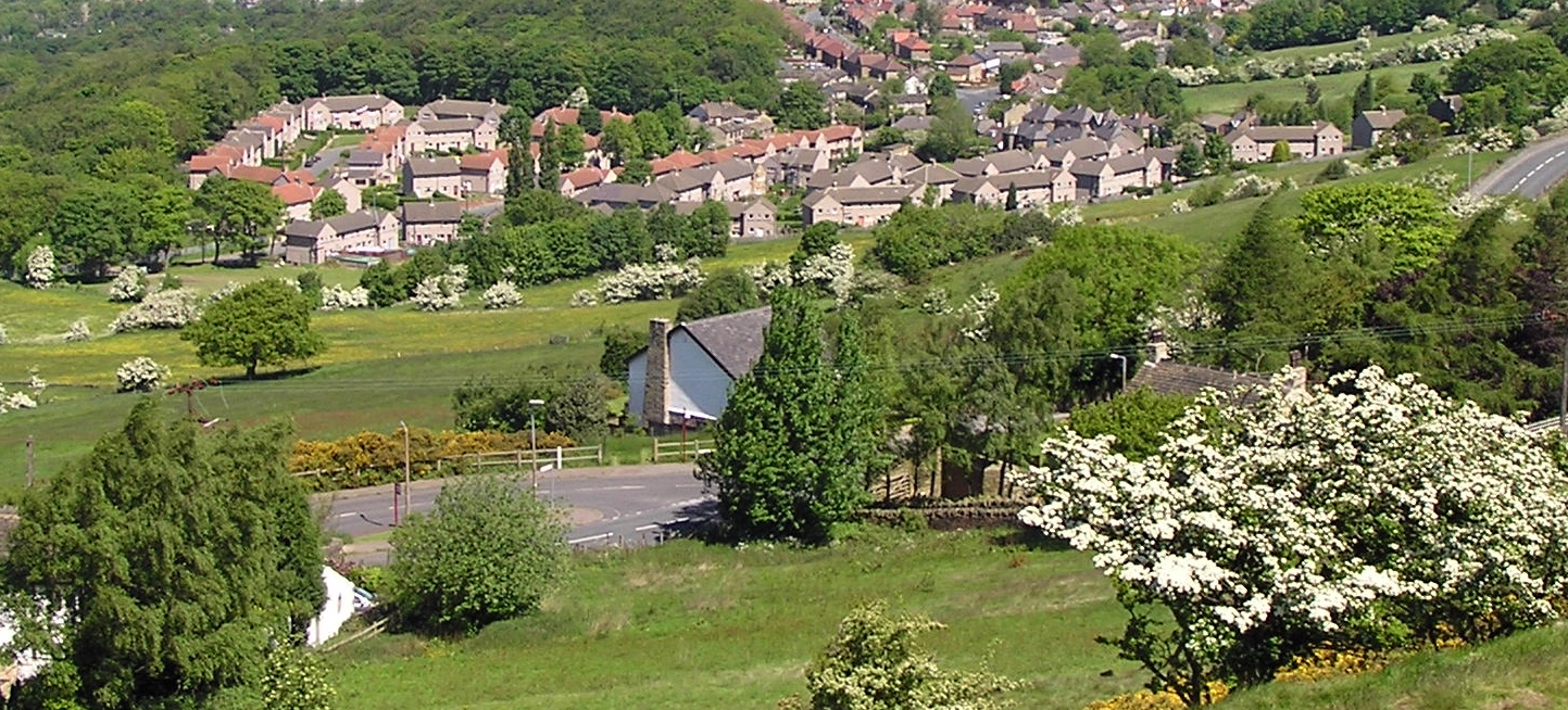 View of Longley, from Castle Hill, Huddersfield.